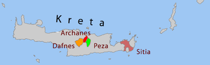 Greek wine regions with OPE (Green) and OPAP Appellations (red)